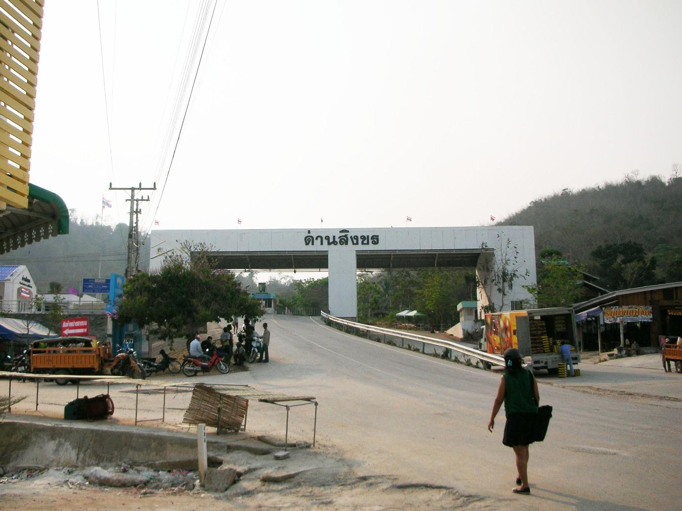 Dan Sing Khon Myanmar-Thailand border post. Thai side.